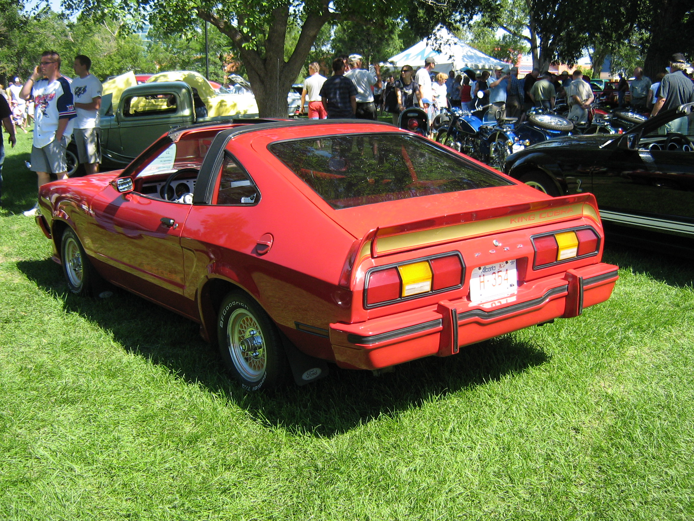 1978 Ford Mustang Cobra